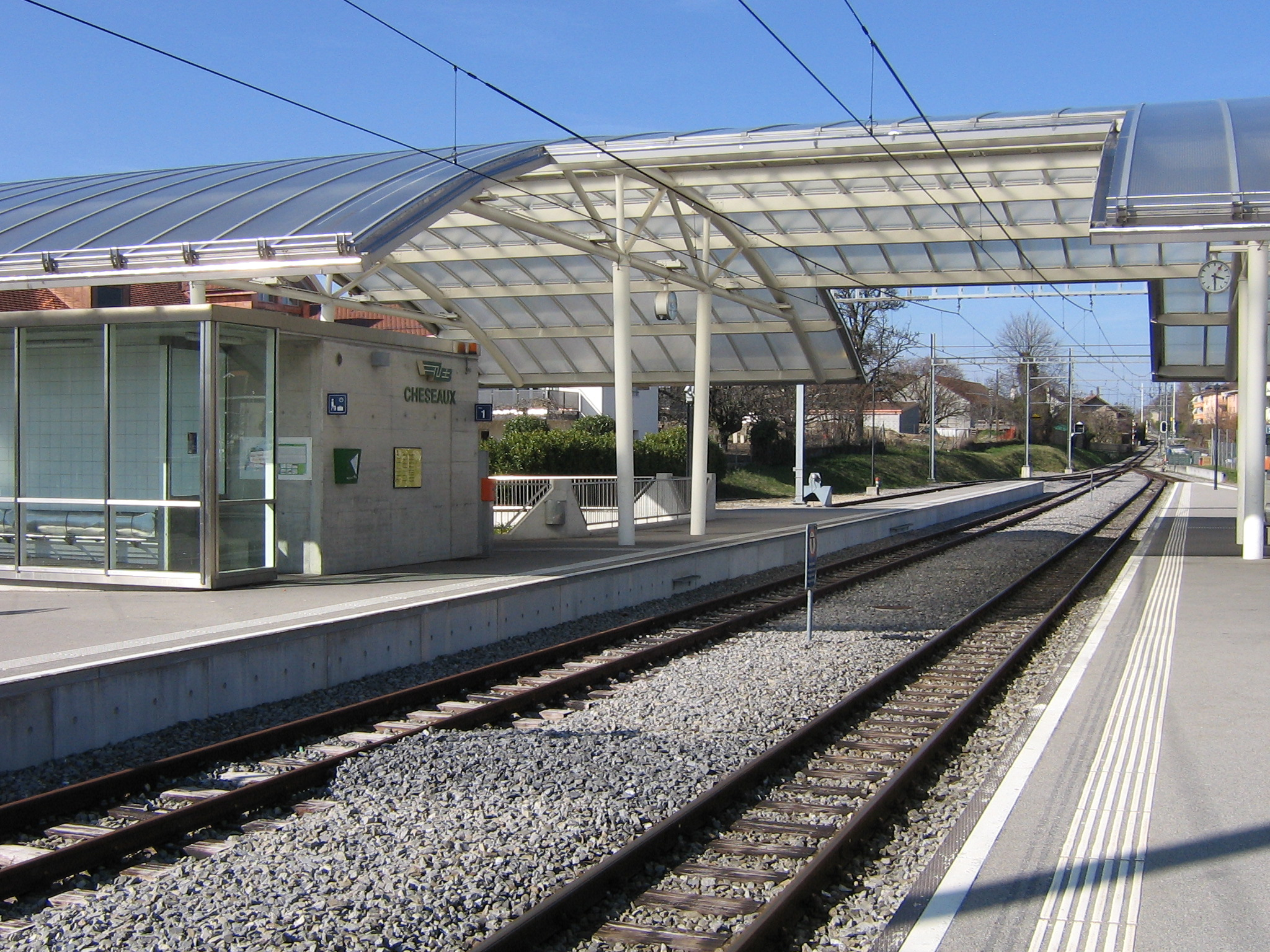 Global view of the railwys station of Cheseaux-sur-Lausanne from the second platform.